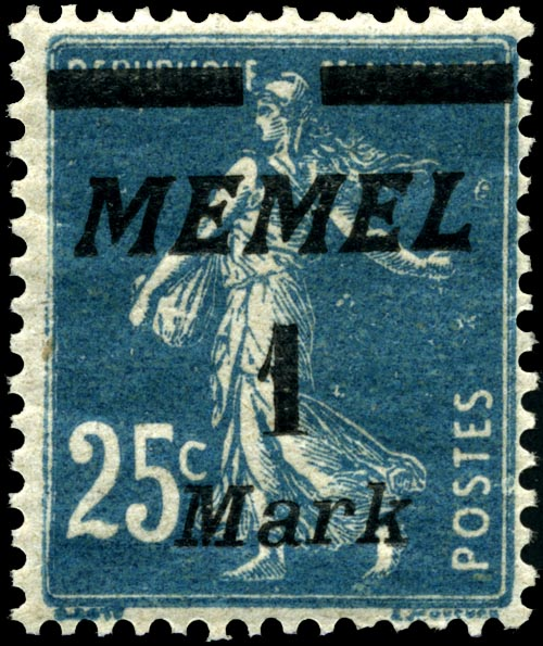 Memel 1-mark overprint stamp of 1920